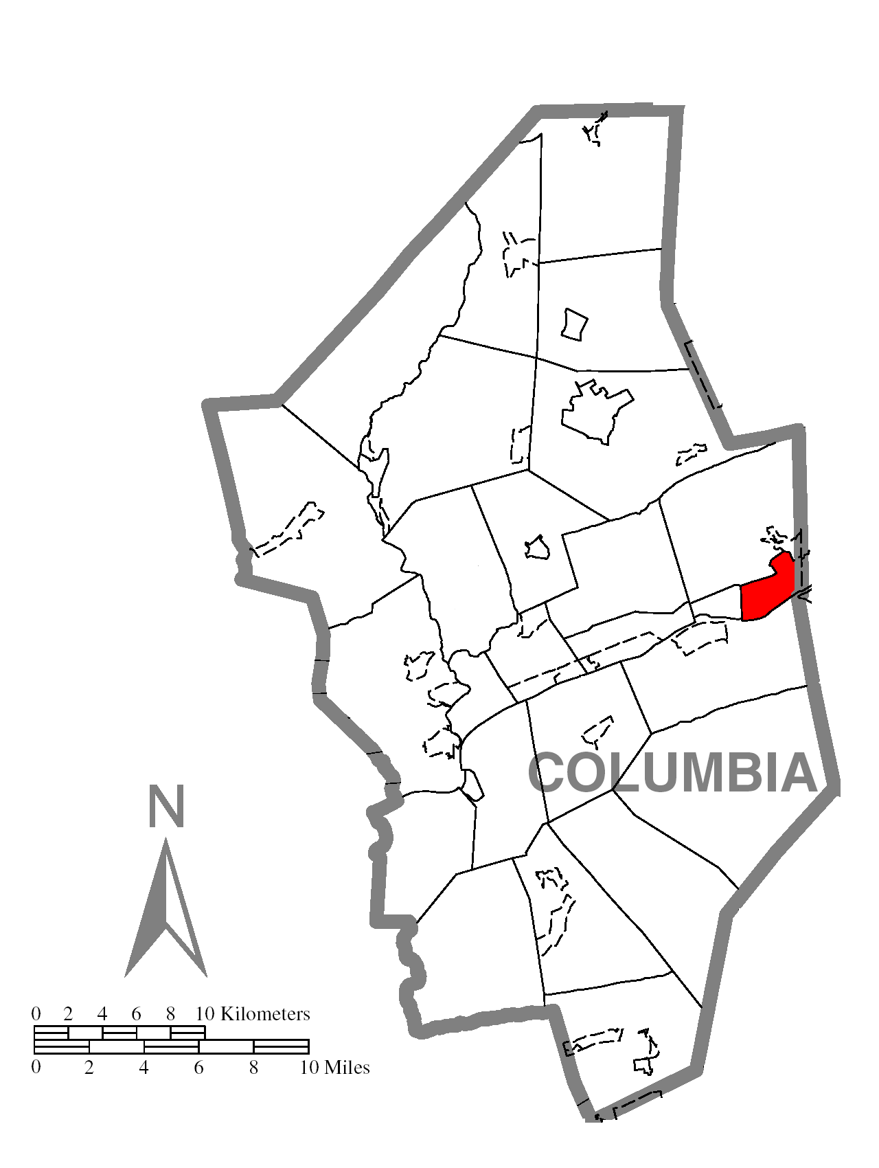 A map of Columbia County showing Berwick, Pennsylvania (alternate) highlighted on the map.